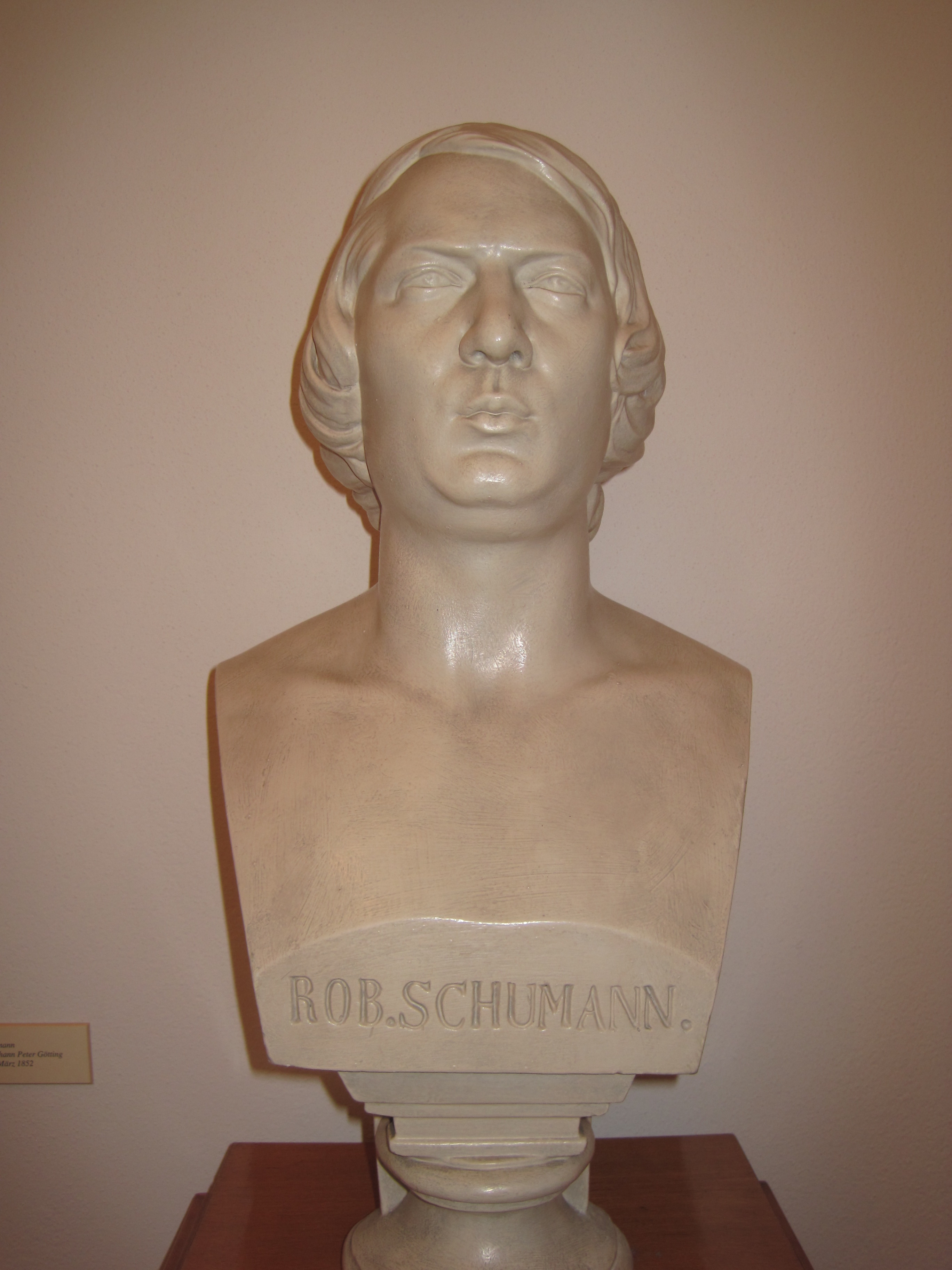 Robert Schumann, Sculpture of Johann Peter von Götting (* 1795 in Aachen; † after 1865 in Aachen), exhibit in the museum Robert Schumann house in Zwickau, Saxony.